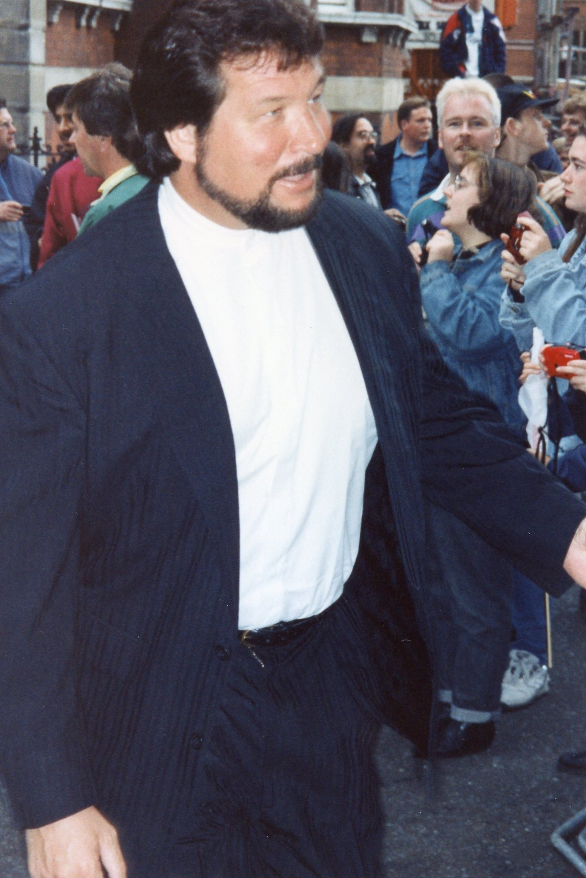 Million Dollar Man Ted DiBiase